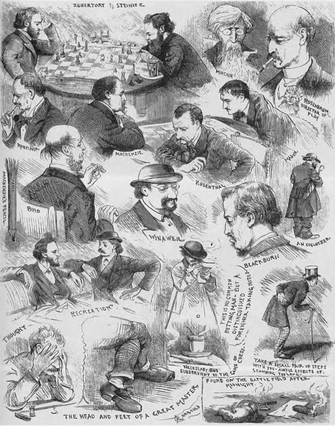 London 1883 International Chess Tournament — a picture from "Illustrated London News"